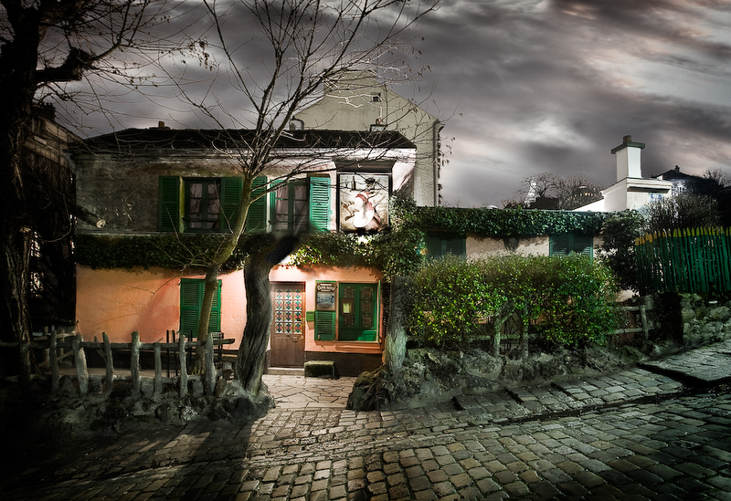 Voici une photo HDR prise un soir d'hiver à Montmartre